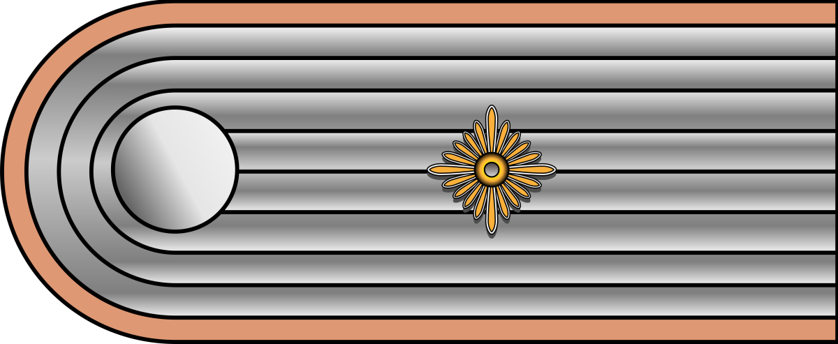 Rang insignia of the German Wehrmacht, here shoulder strap “First lieutenant” (OF-1) Heer. Weapon colour: Copper-brown – „Motorbike-schütze”. 中文（台灣）: 二戰德國陸軍中尉肩章